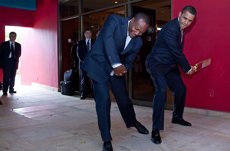 World-famous cricket legend Brian Lara shows President Barack Obama how to properly swing a bat on April 19, 2009.